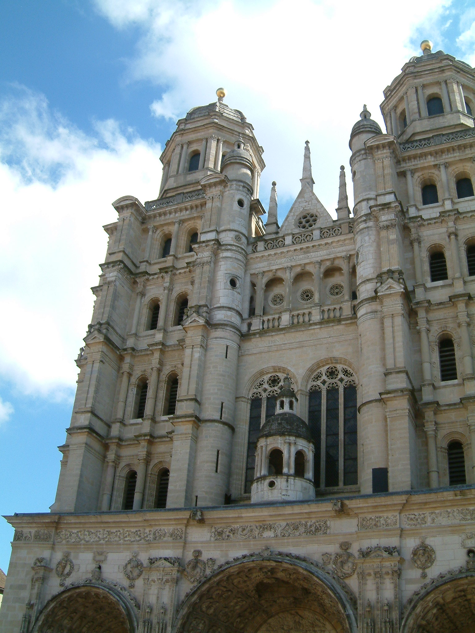 Saint-Michel church, Dijon, Bourgogne, France